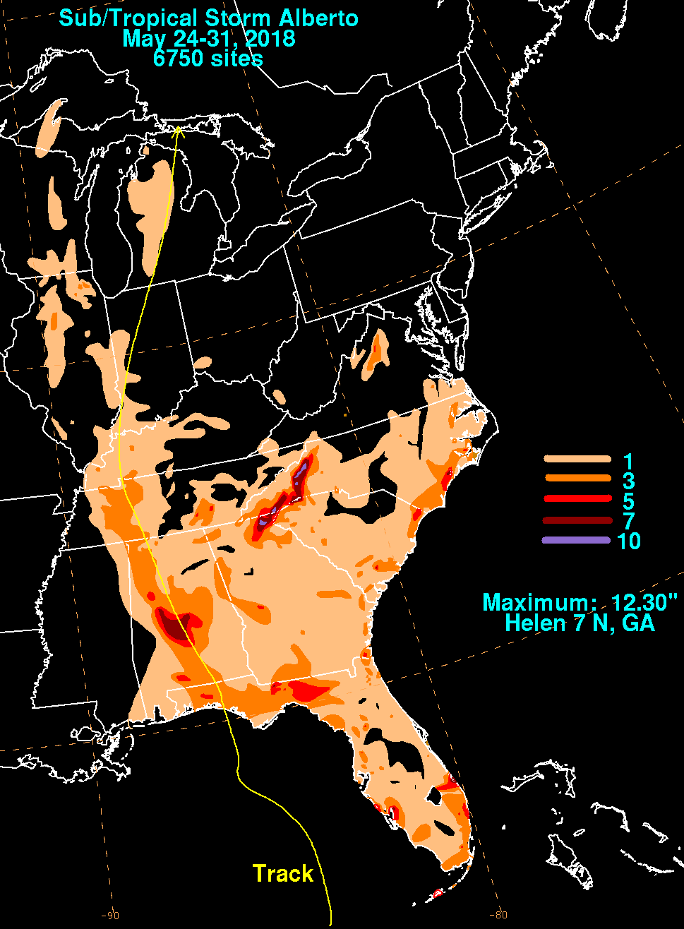 Total rainfall with Tropical Storm Alberto (2018) over the United States.